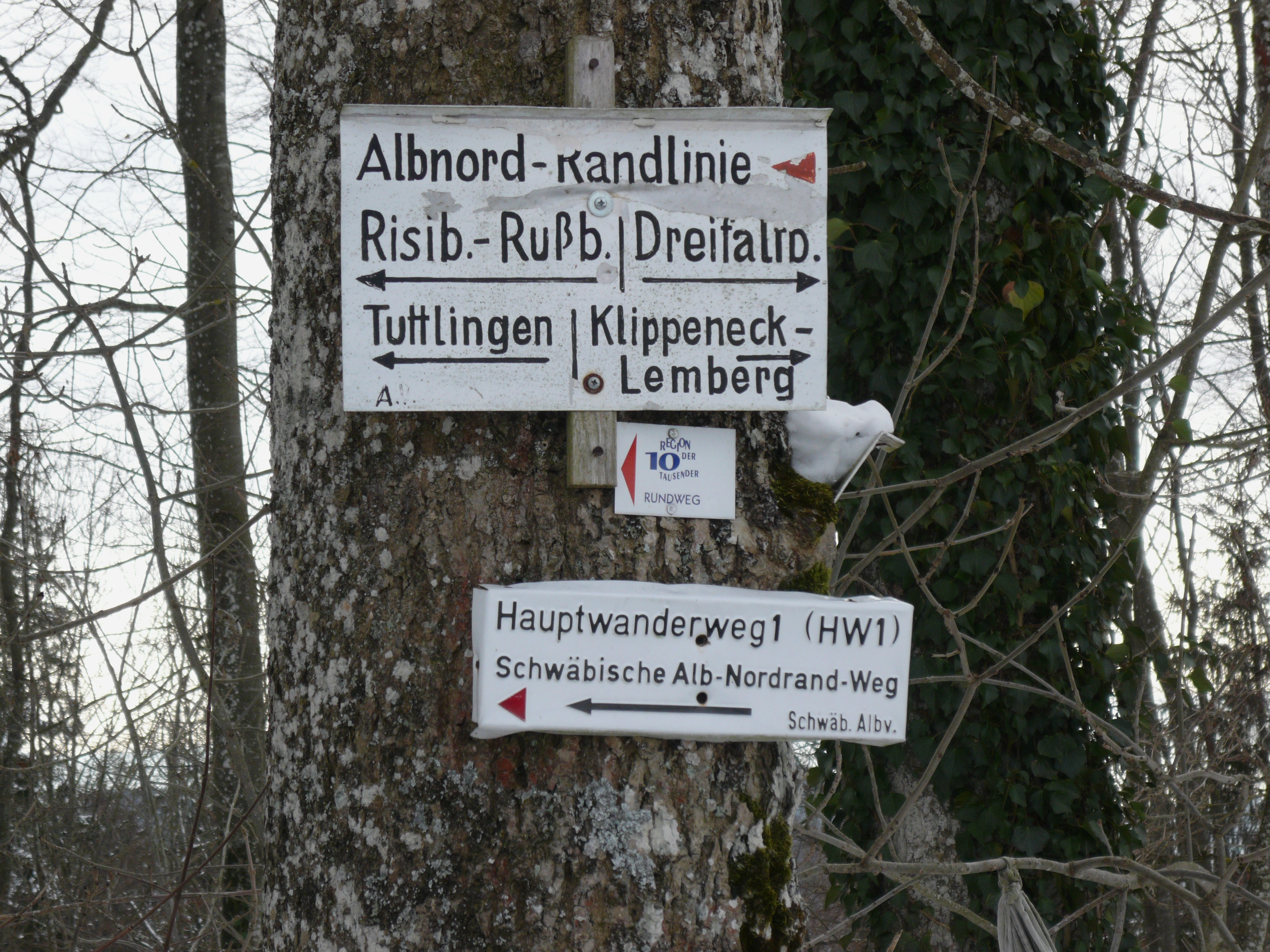 Signs on one of the main hiking routes on Schwaebische Alb